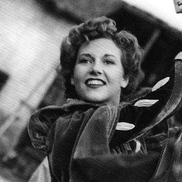 British film actress Rona Anderson cropped from ..... demonstrates her cricket skills to players of the 1949 New Zealand cricket team touring England during a visit to Pinewood Studios. Left to right: Martin Donnelly (kneeling), Geoff Rabone, Walter Hadlee (kneeling), Frank Mooney, Rona Anderson, Harry Cave, Merv Wallace, John R. Reid.